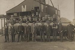 Proud miners pose for a work photograph at Fanny Pit, Sheriff Hill, in 1921